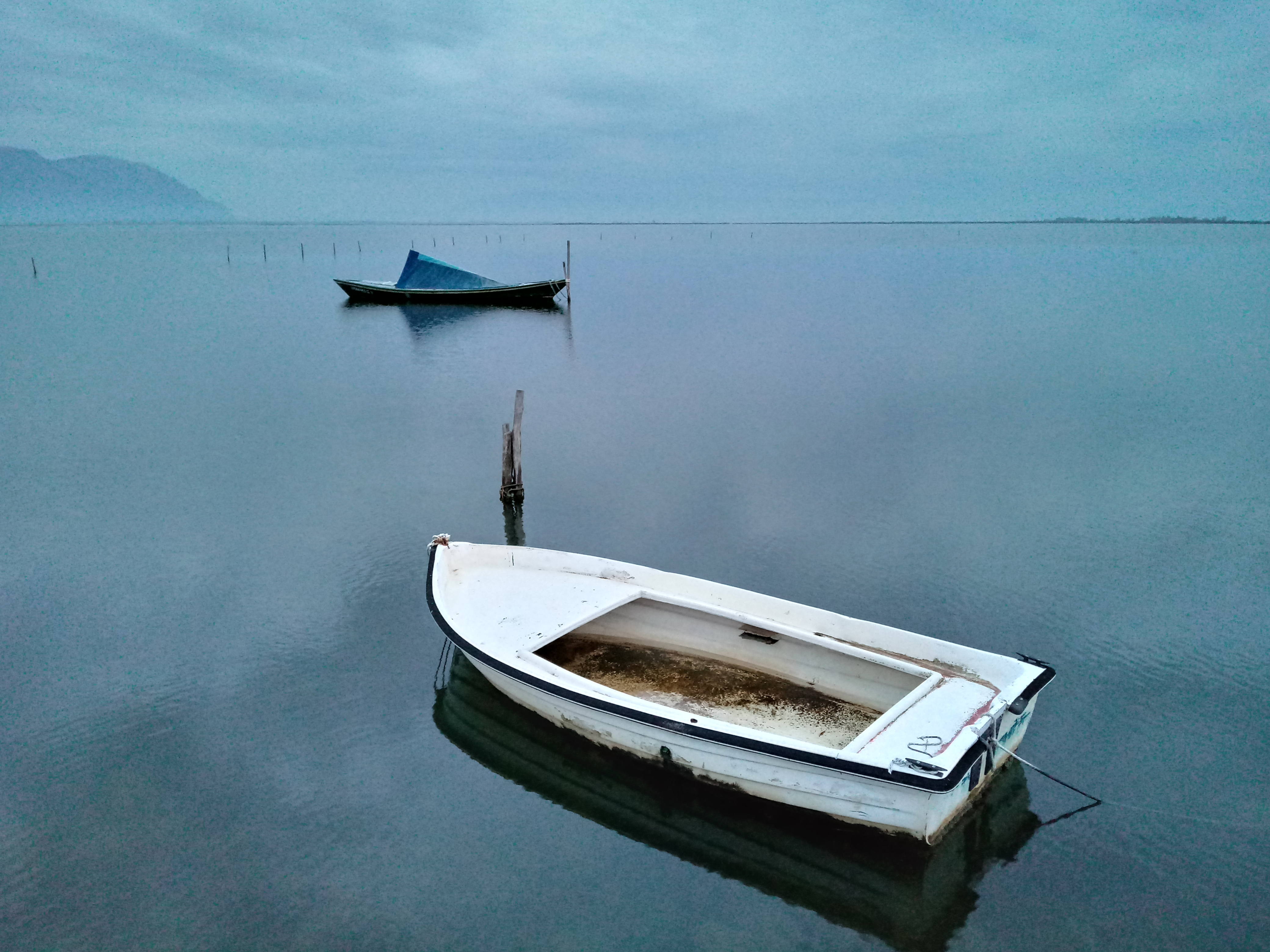 Boats, Messolongi lagoon This is a photography of Natura 2000 protected area with ID GR2310001